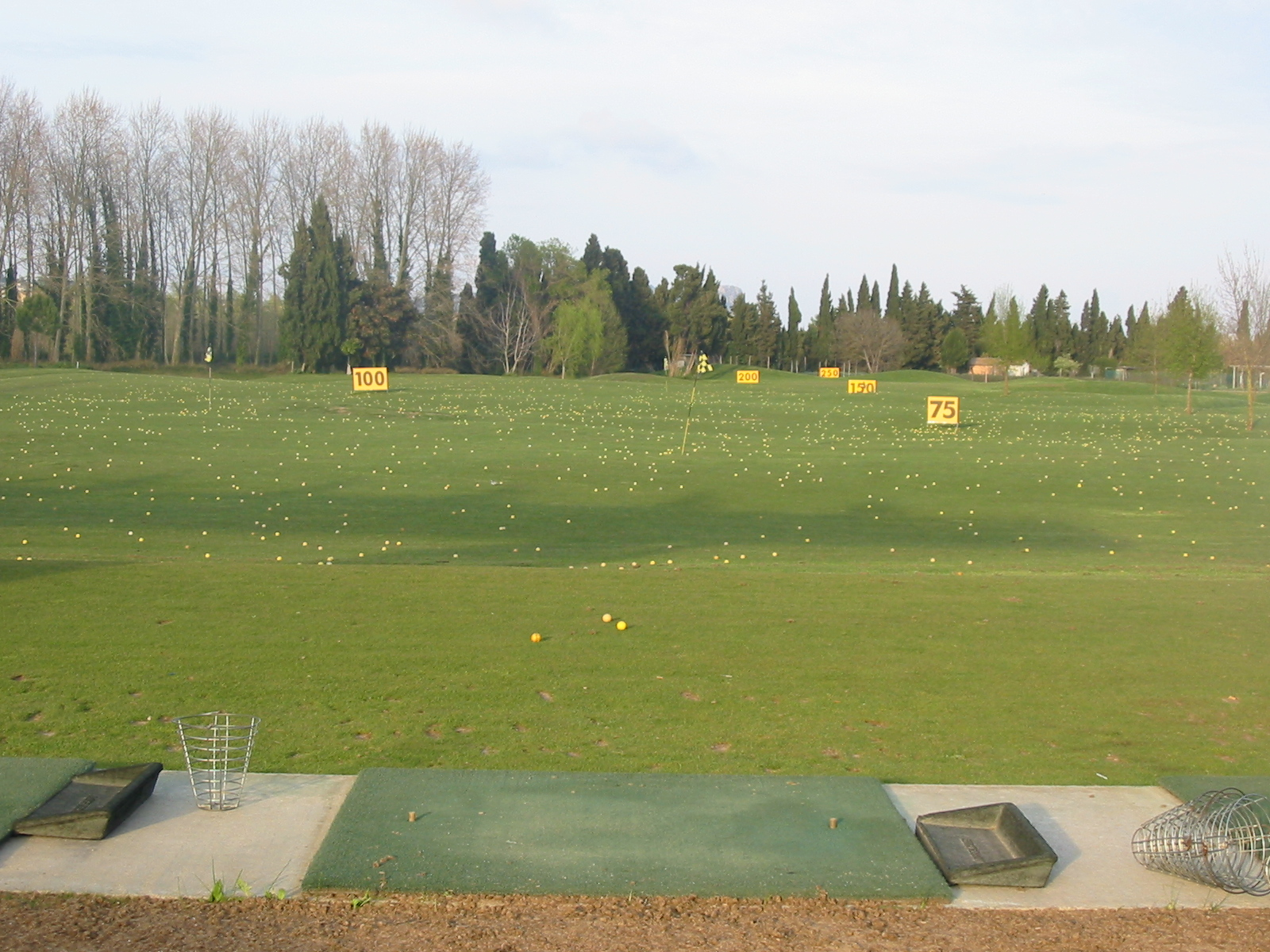 Driving Range, Gualta Golf, Costa Brava, Spain